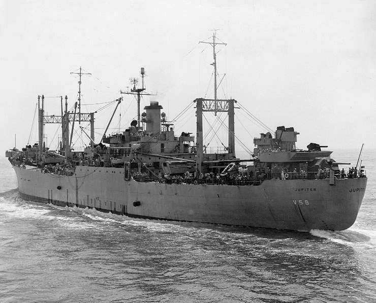 USS Jupiter (AVS-8) underway in the Sea of Japan, 1 August 1953. Photographed from USS Boxer (CVA-21).